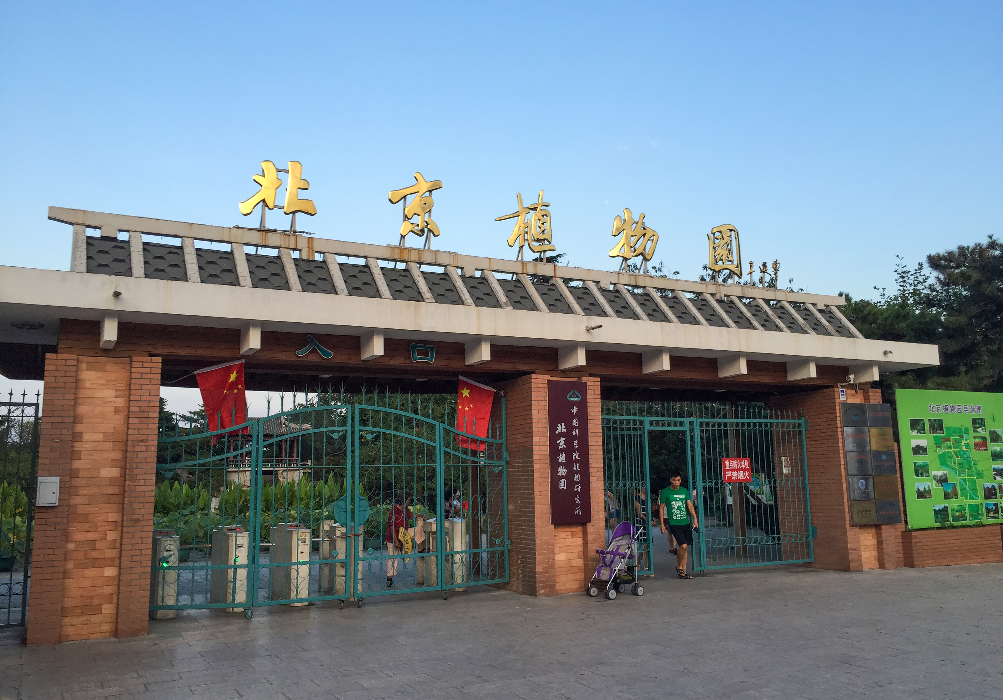 Taken after a long march through the hills.